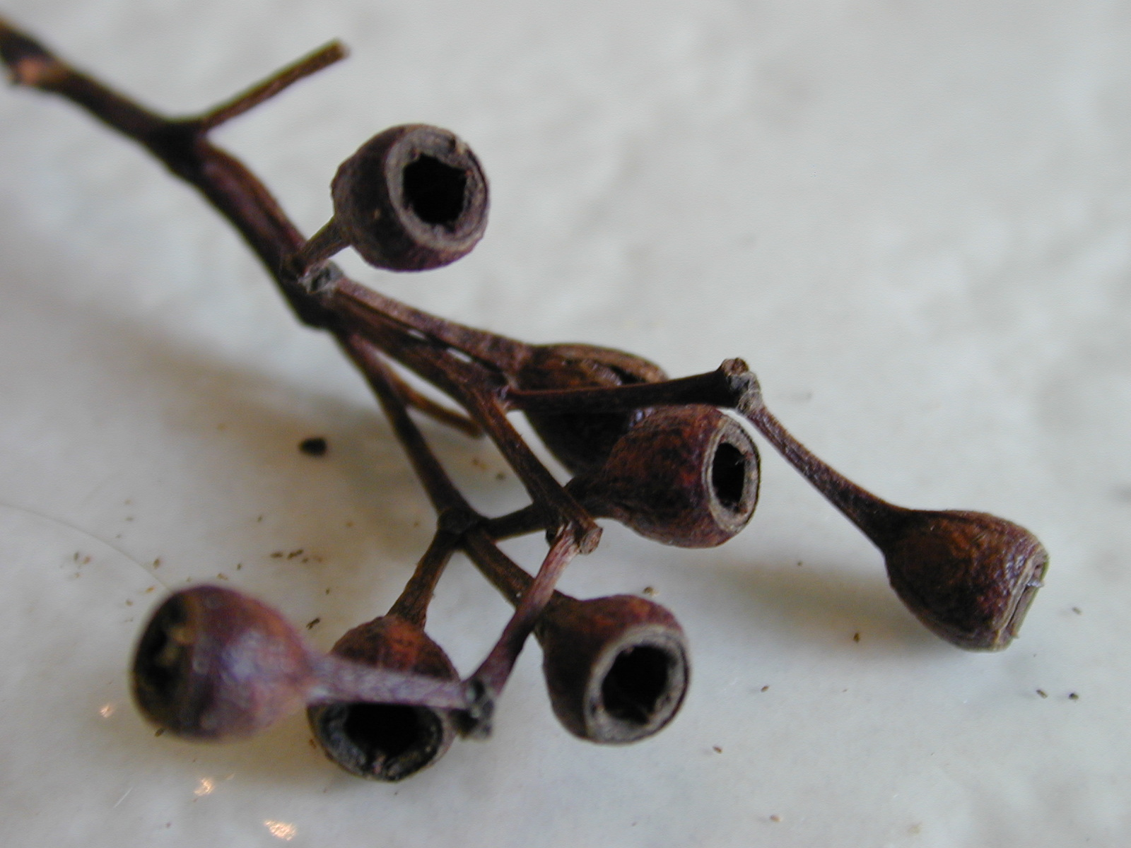 Eucalyptus paniculata (fruit). Location: Maui, Hobdy collection